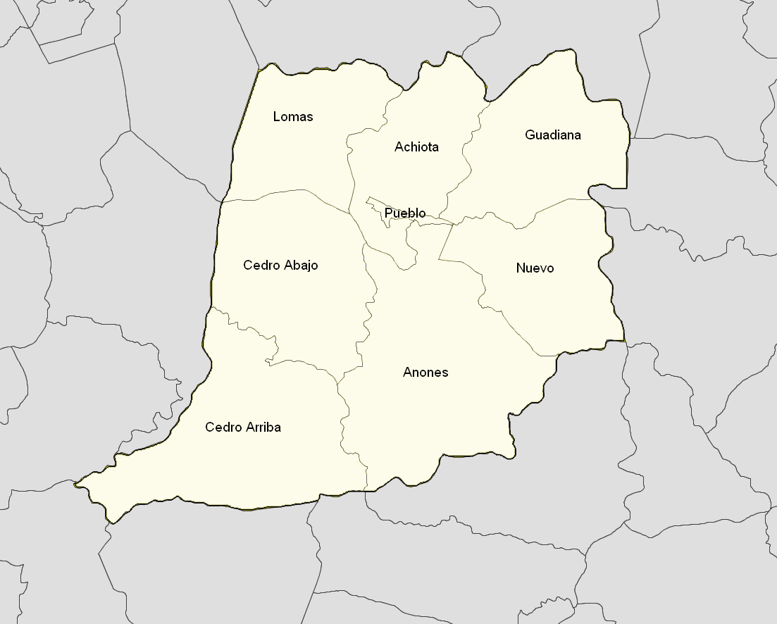 Barrios in the municipality. Original version Map scale is 1:200,000